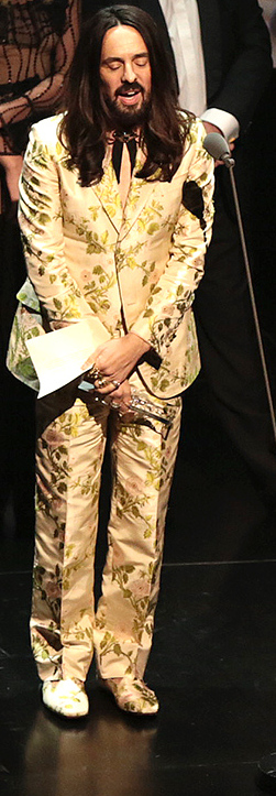 International Designer: Recognising a non-British internationally acclaimed, leading designer who has directed the shape of fashion in the past year both in the UK and internationally. WINNER: Alessandro Michele for Gucci Presented by Tim Blanks and Georgia May Jagger